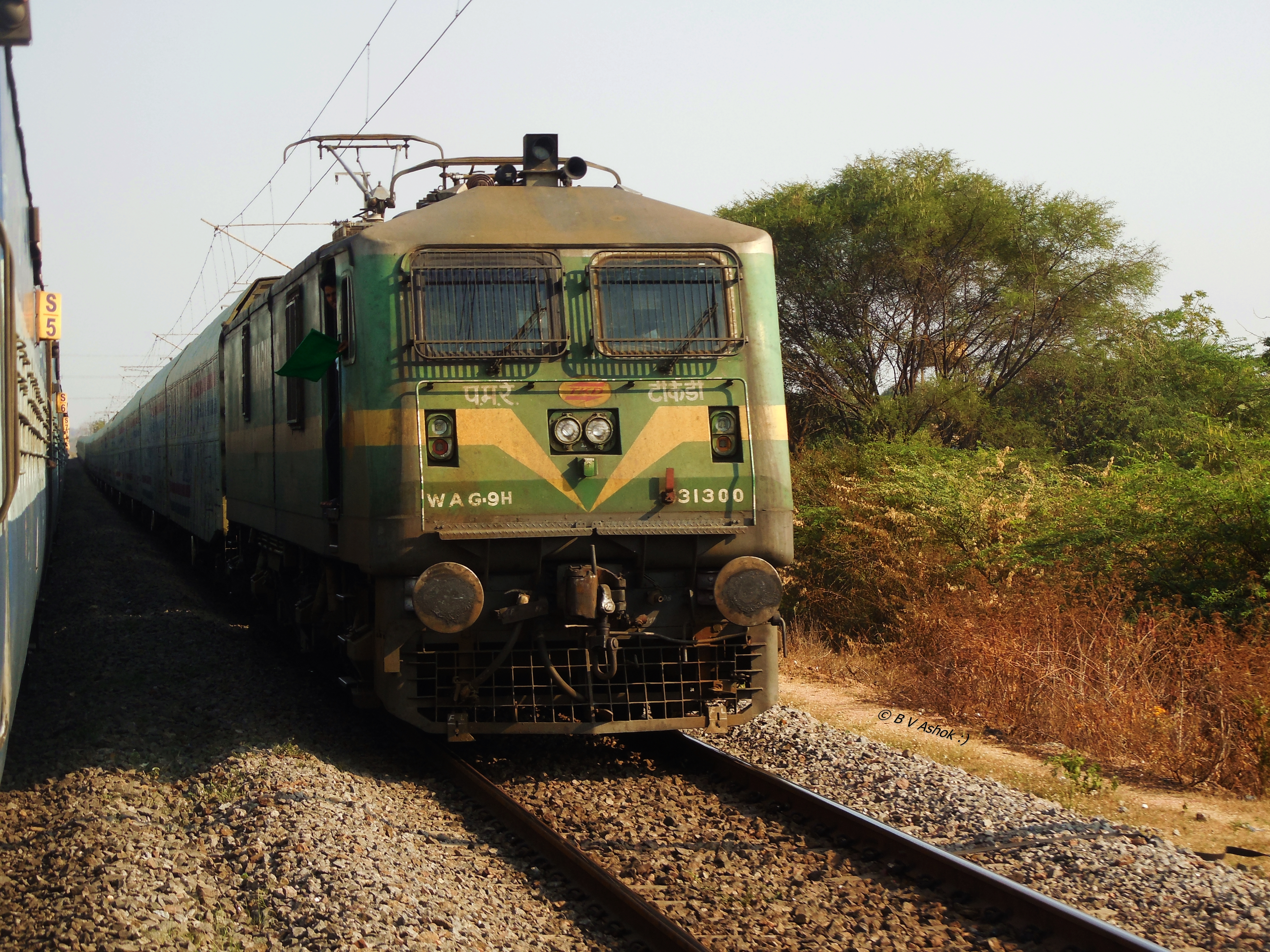 WCR's TKD WAG-9H 31300 with a BCACBM rake near Kolanoor exchanging green flag...